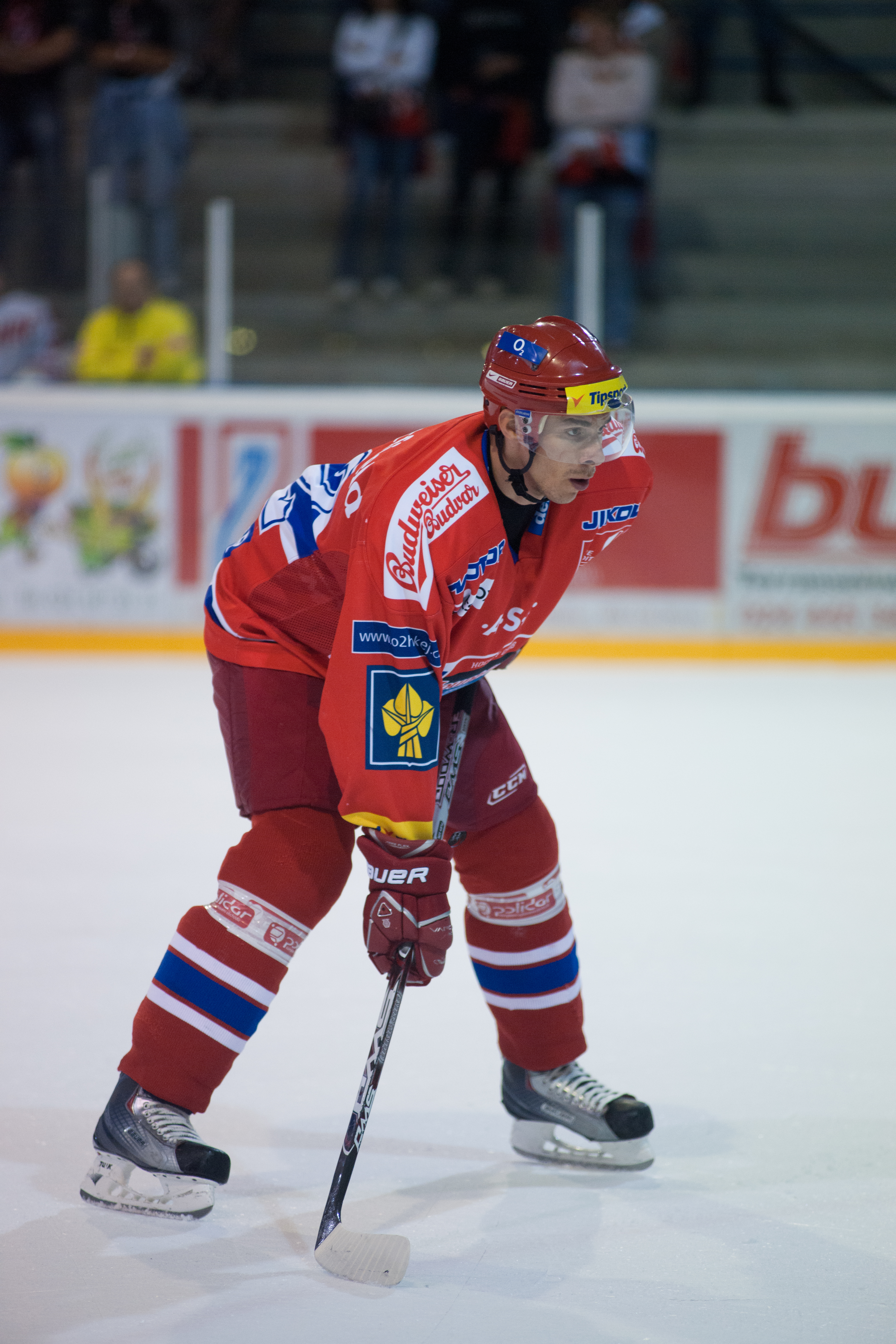 Festyvhockey 2010, Yverdon-les-Bains. The making of this document was supported by Wikimedia CH. (Submit your project!) For all the files concerned, please see the category Supported by Wikimedia CH.